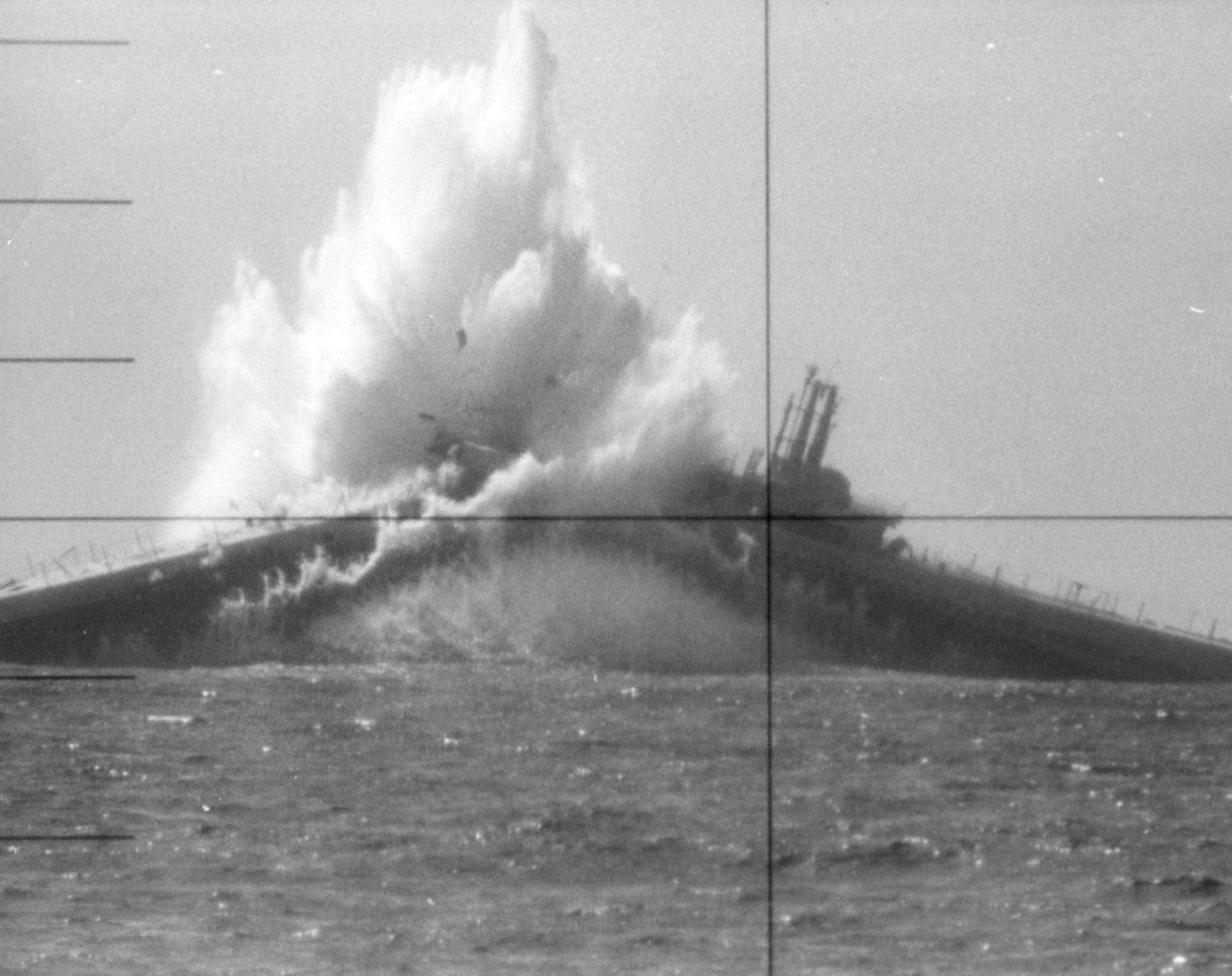 USS Devilfish (SS-292) being sunk as a target by Wahoo (SS-565) at San Francisco, CA.